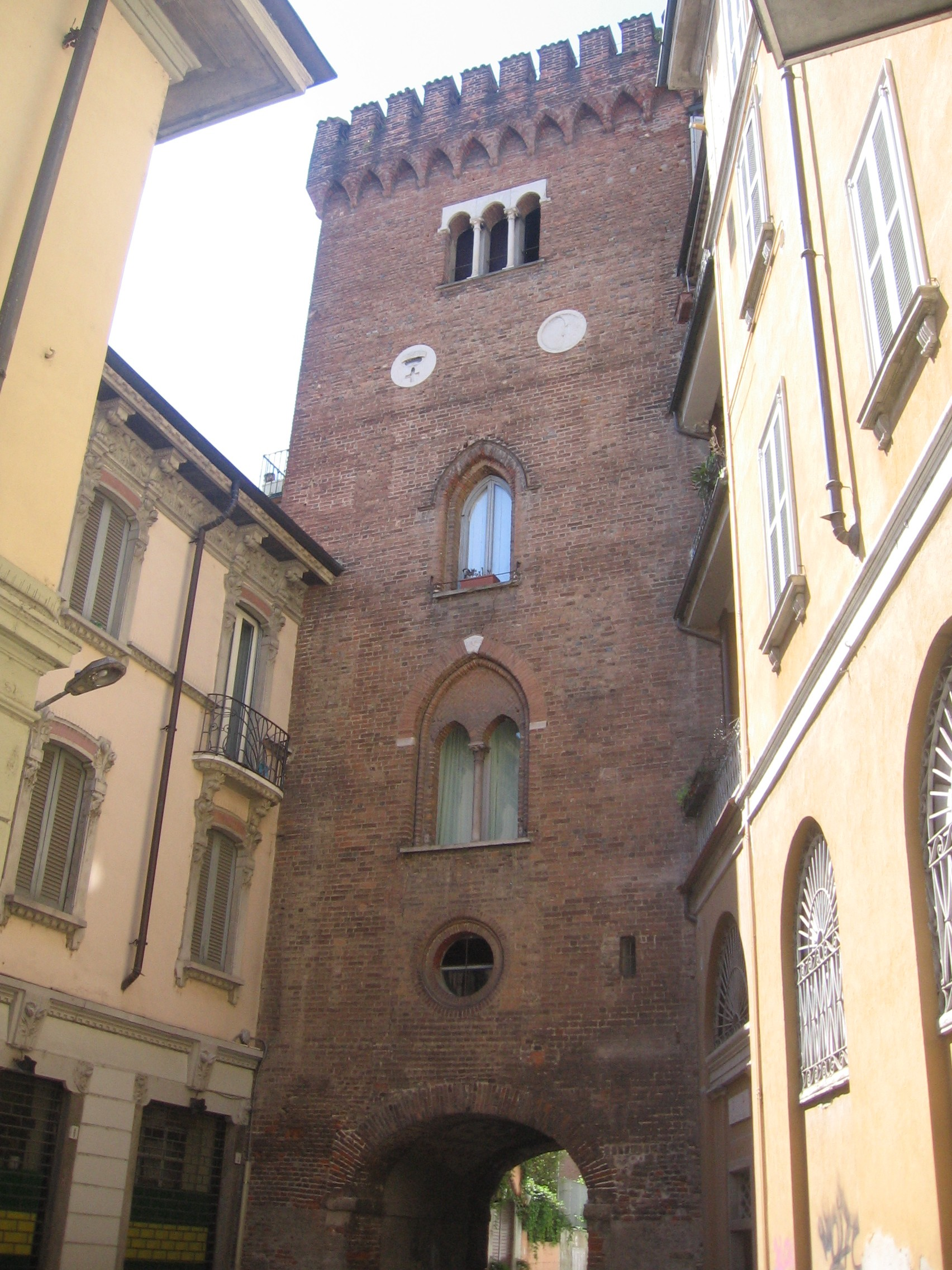 Theodelinda's tower in Monza.